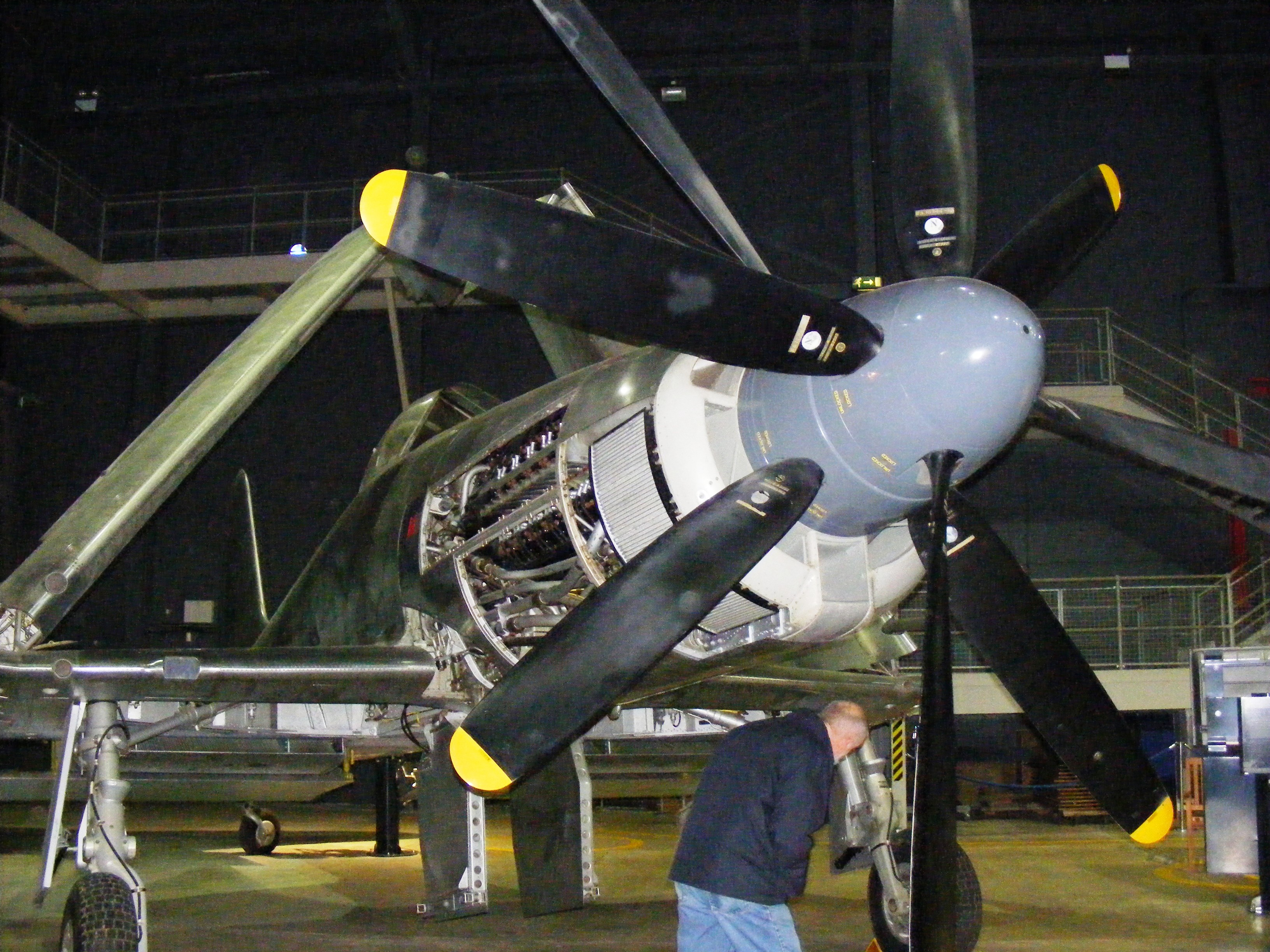 Westland_Wyvern_TF1 at the Fleet Air Arm Museum